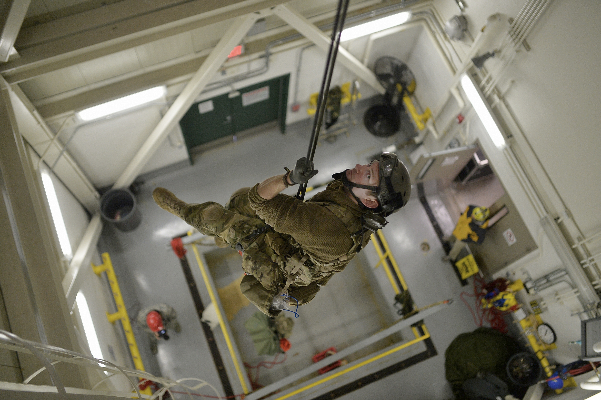 Pararescuemen from the 103rd Rescue Squadron conduct confined space rescue training at Francis S. Gabreski Air National Guard Base in Westhampton Beach, New York on January 8, 2017.. . During this scenario, Pararescuemen rappelled from the top of the parachute drying facility to rescue another airmen who had fallen into a confined space. The injured airman was hoisted to the top of the facility in a litter, and then hoisted back down the outside of the building. . . Pararescuemen, also known as PJs, are the only Department of Defense specialty specifically trained and equipped to conduct conventional or unconventional rescue operations. These Battlefield Airmen are the ideal force for personnel recovery and combat search and rescue.. . (U.S. Air National Guard photo by Staff Sgt. Christopher S. Muncy)